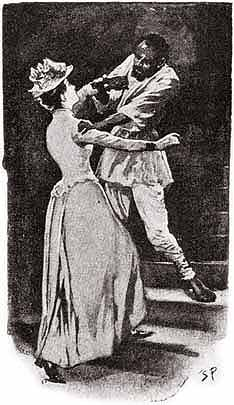 Illustration of the Sherlock Holmes short story The Man with the Twisted Lip, which appeared in The Strand Magazine in December, 1891. Original caption was "AT THE FOOT OF THE STAIRS SHE MET THIS LASCAR SCOUNDREL."